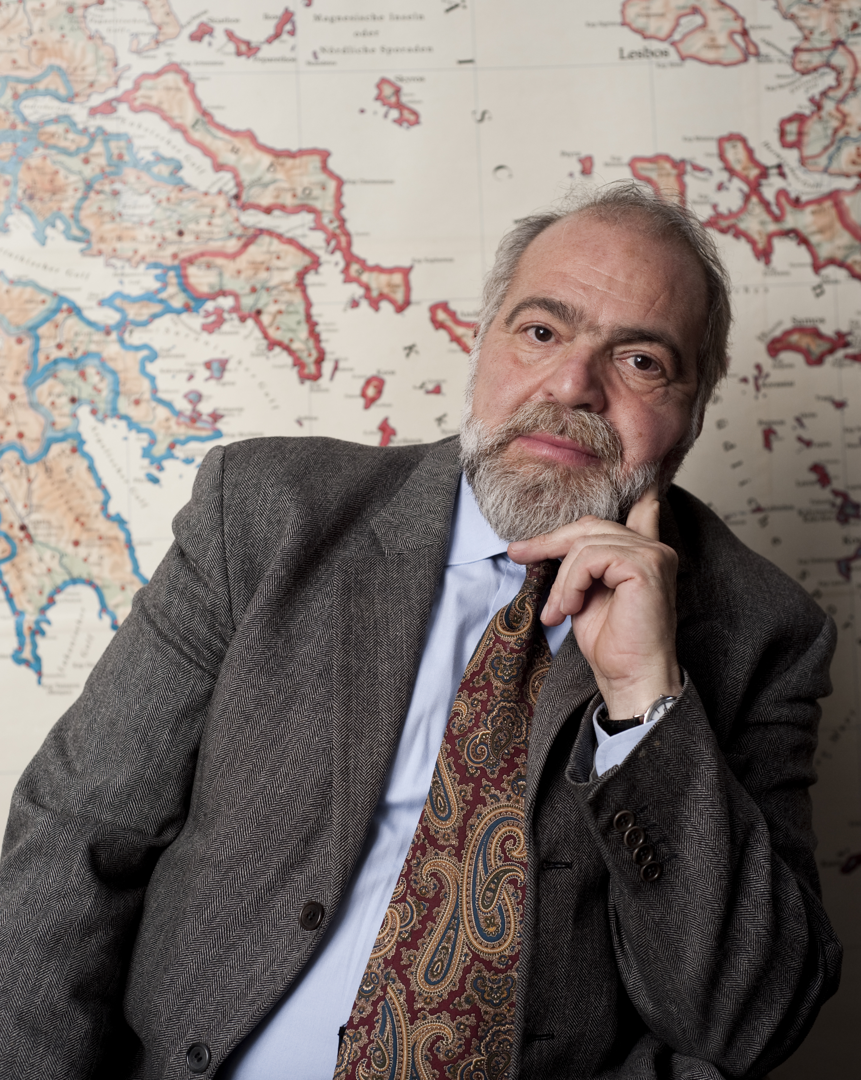 Carmine Ampolo